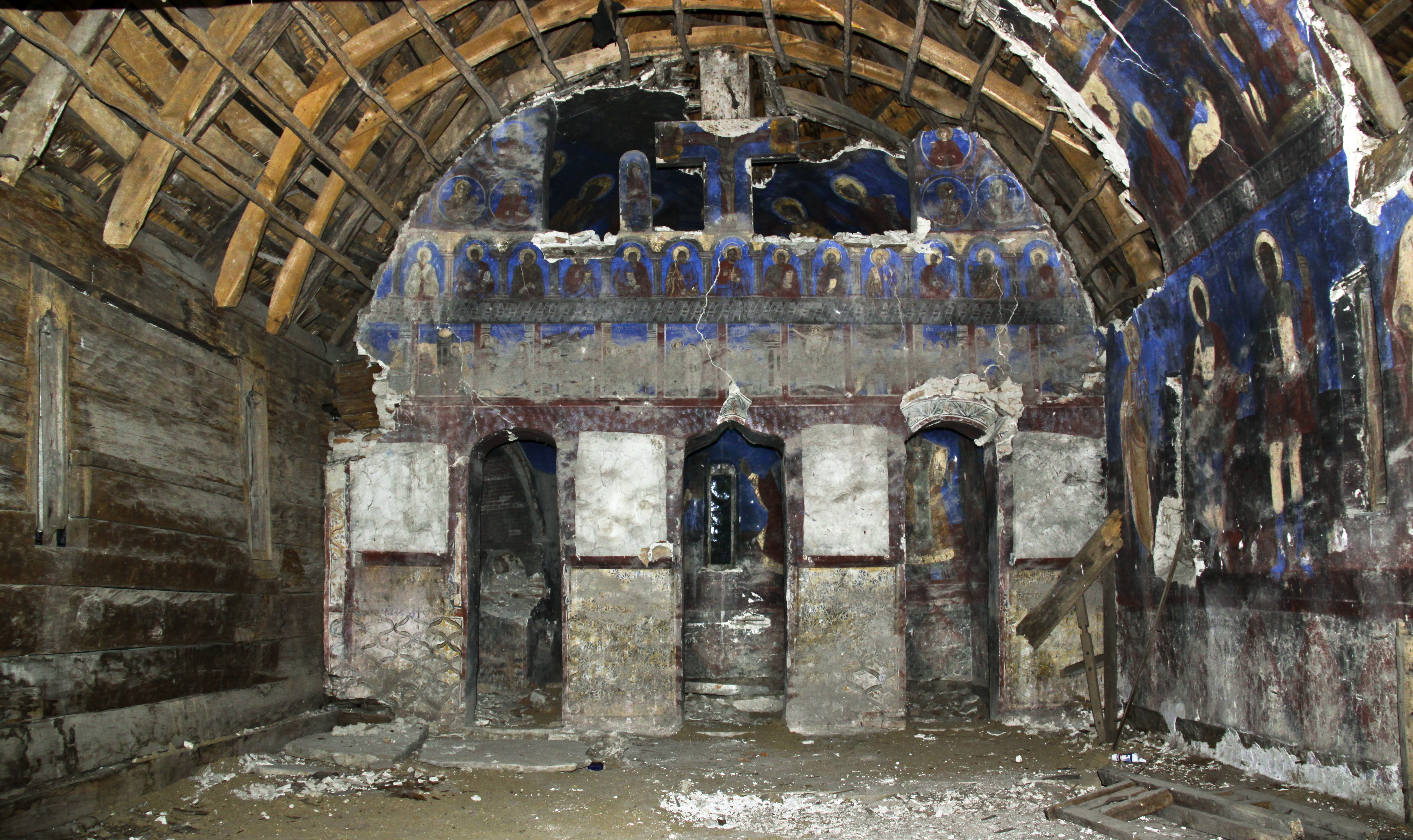 Gemenea-Onceşti, Dâmboviţa couny, Romania: the wooden church, nave, East-wards.